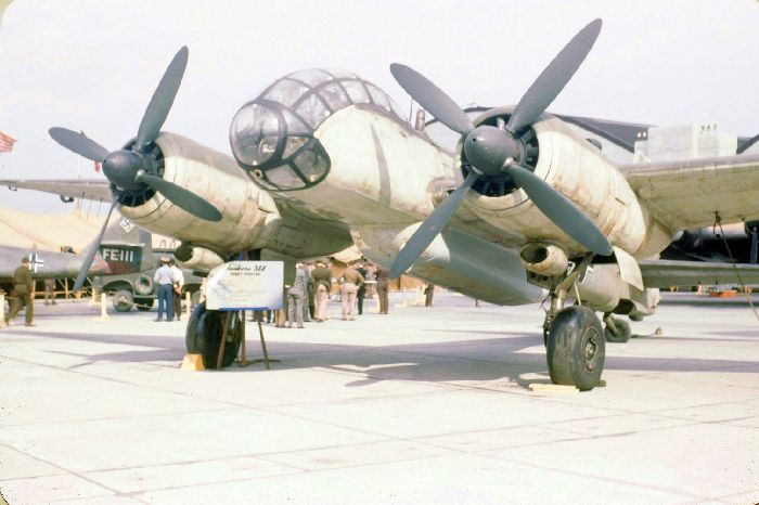 Junkers Ju388L-1, 560049, FE-410, Wright Field, 1946 victory display 003920016. Jack D. Canary Special Collection Photo